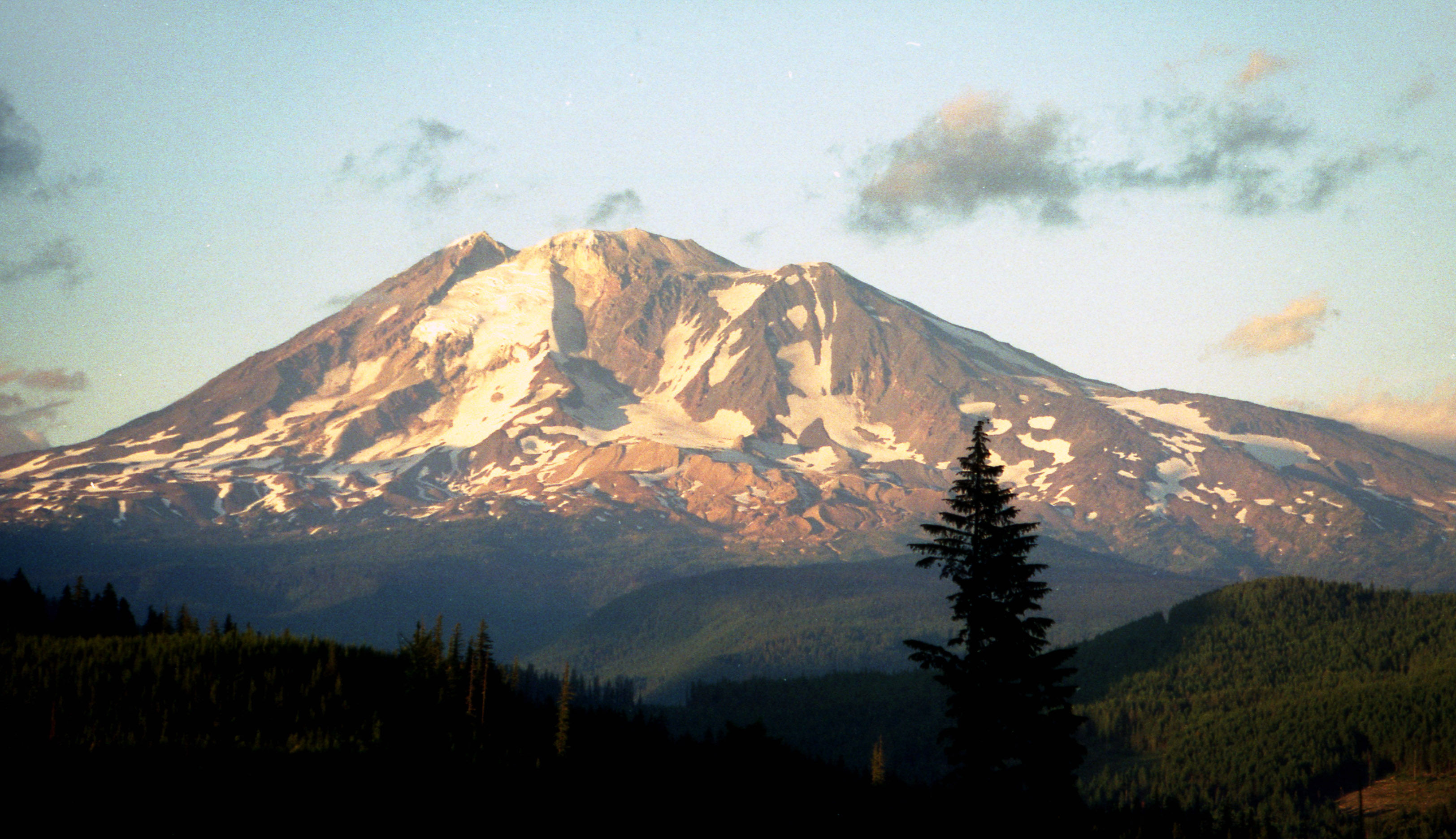 Mount Adams 3743 m, Washington, USA (south-southwest face); The Pinnacle (left skyline) with White Salmon and Avalanche Glaciers below.